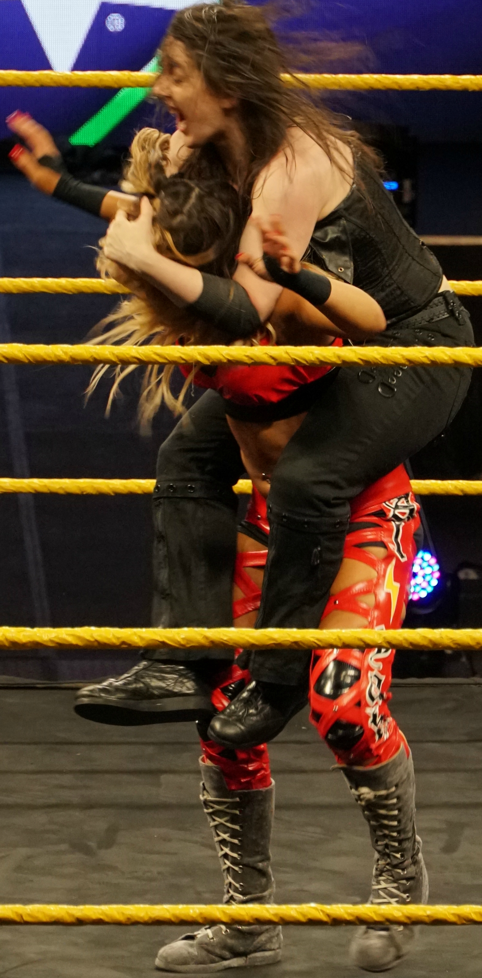 Nikki Cross performing an standing sleeper hold on Aliyah in April 2018